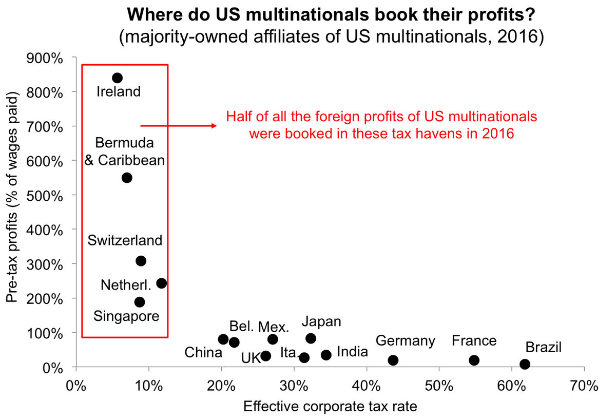 A chart that has been also reproduced by other academics, such as Gabriel Zucman and Thomas Wright, comparing the 2016 Bureau of Economic Analysis ("BEA") data returns from U.S. multinationals by source versus the BEA column on effective tax rates; highlighting the high % that originates from tax havens